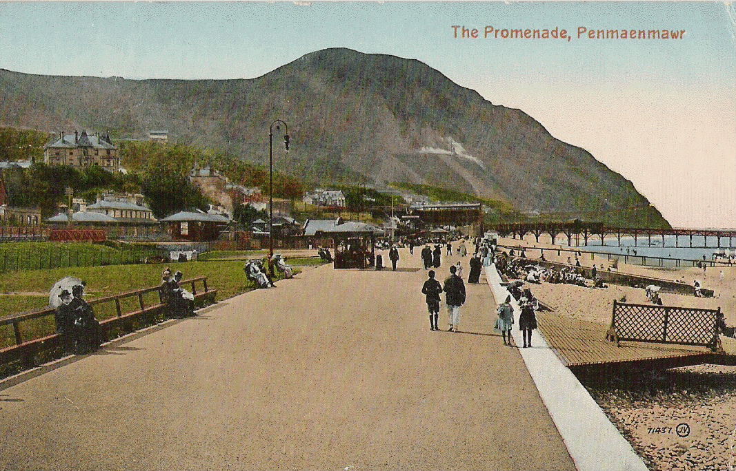 Promenade at Penmaenmawr, Conwy County, Wales. Taken in the 1900s. Penmaen-mawr mountain and quarry in background. Much of the old prom was replaced in the 1970s due to building of the A55 Expressway. The jetty has also gone.